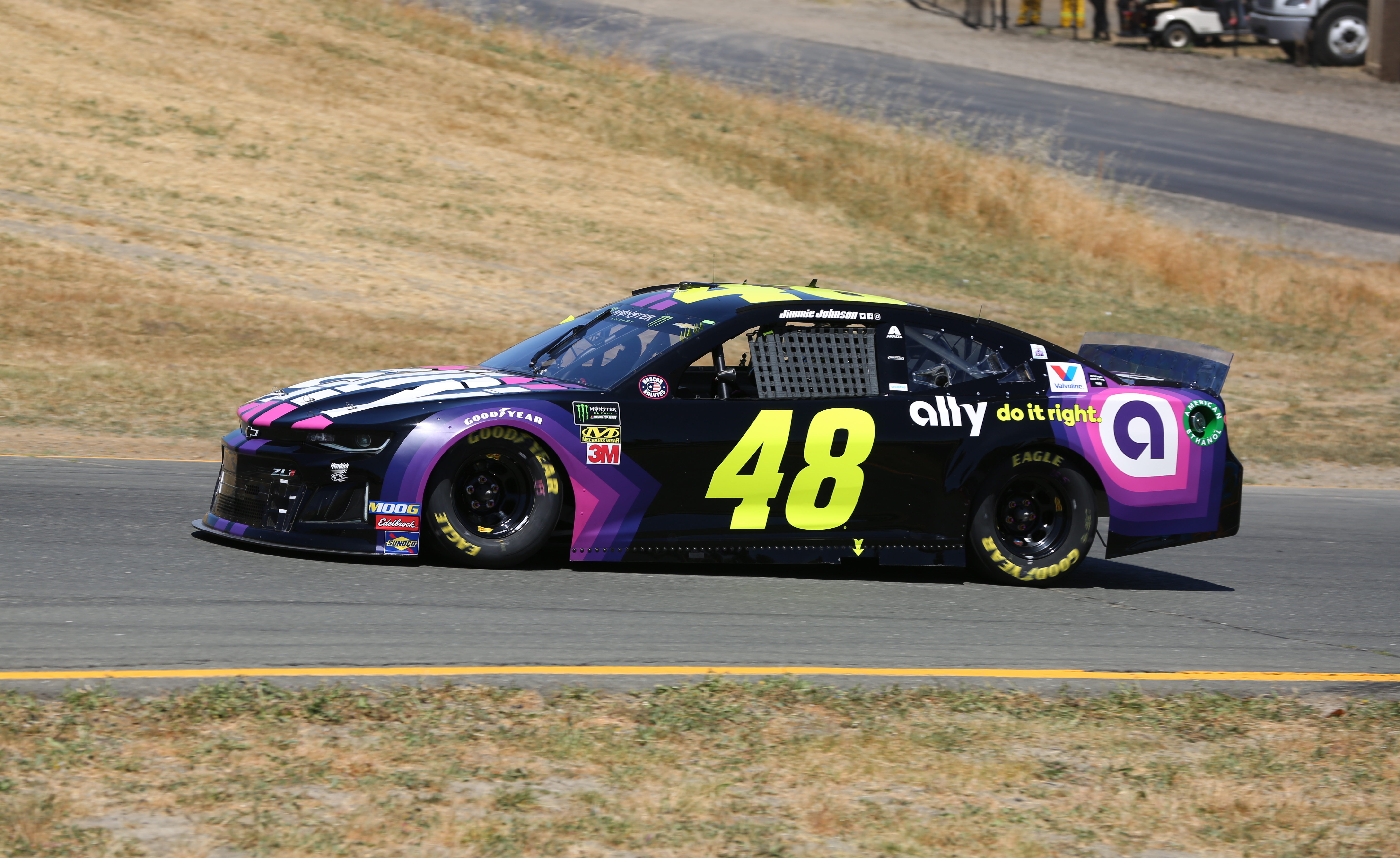 Jimmie Johnson's No. 48 Ally Financial Chevrolet at Sonoma Raceway in 2019